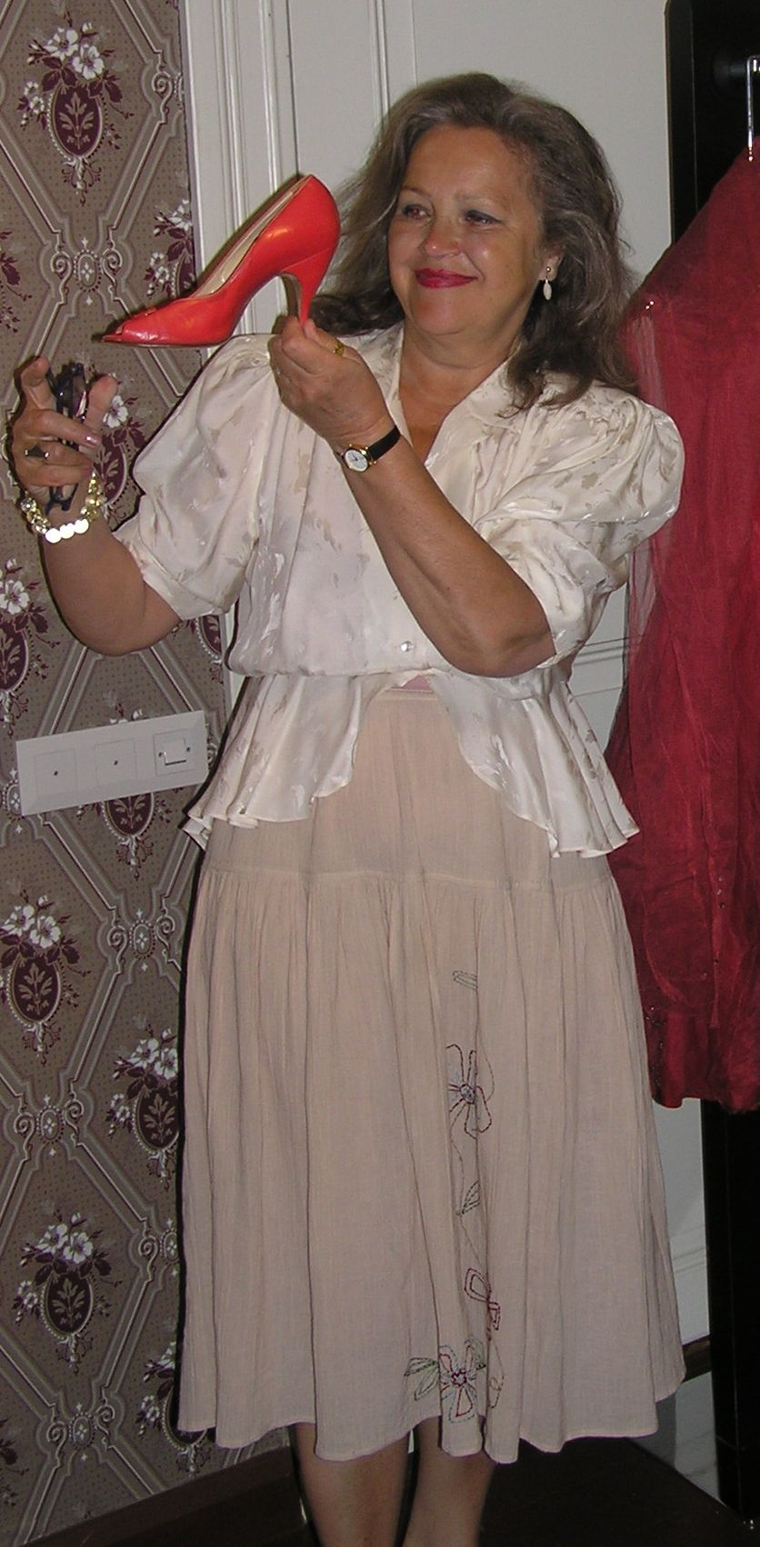 Maarit Niiniluoto finnish writer